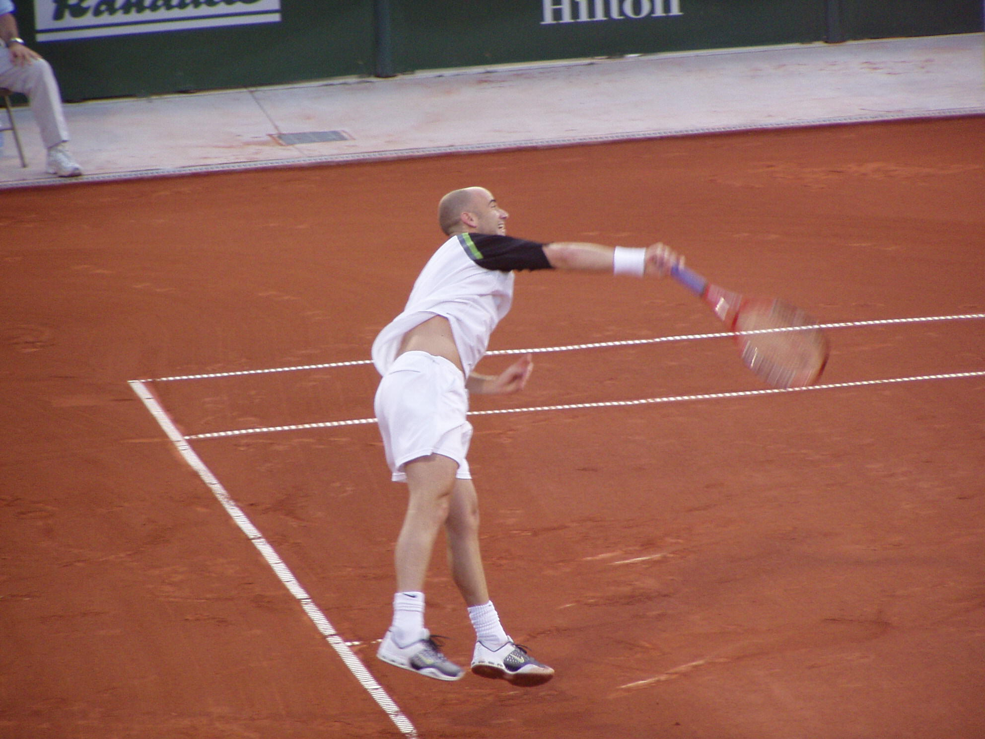 Andre Agassi serving. Houston, Tx